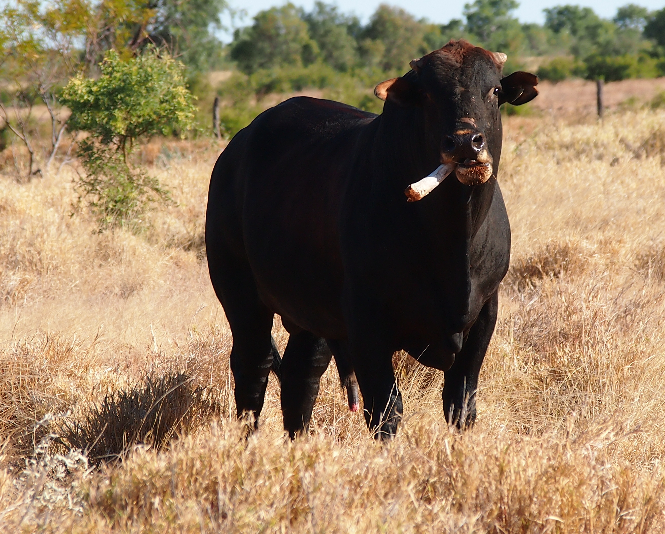 Bull chewing on a bone, evidence of phosphorus deficiency